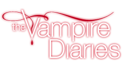 Vampire Diaries Logo